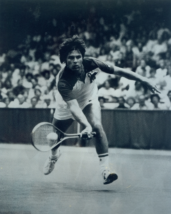 Rice University tennis player Mike Estep," 1971. Rice University